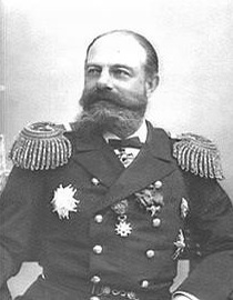 Avelan Fiodor Karlovitsch (1839 -1916) - admiral of Russia, Minister